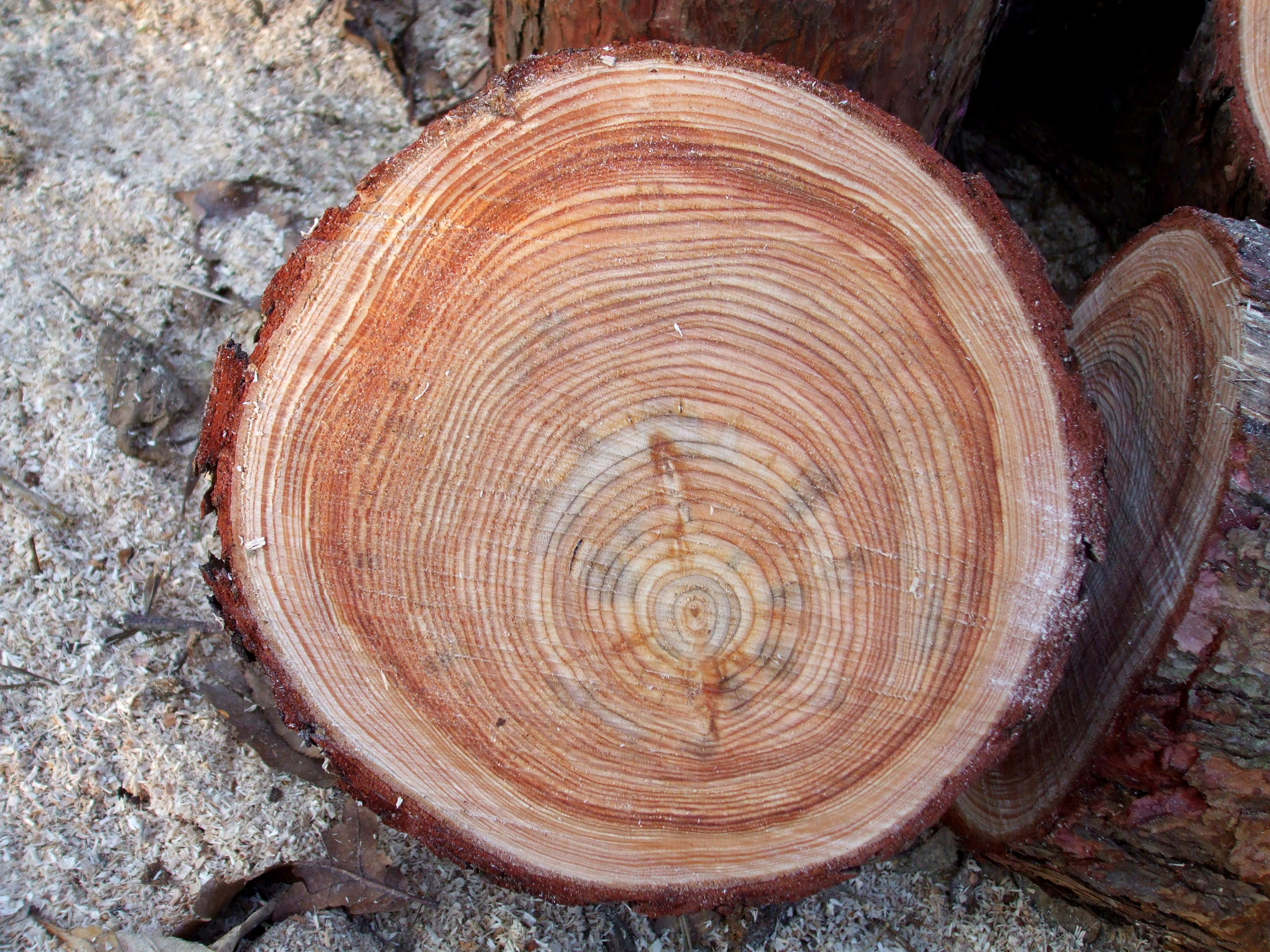 excenter grown tree